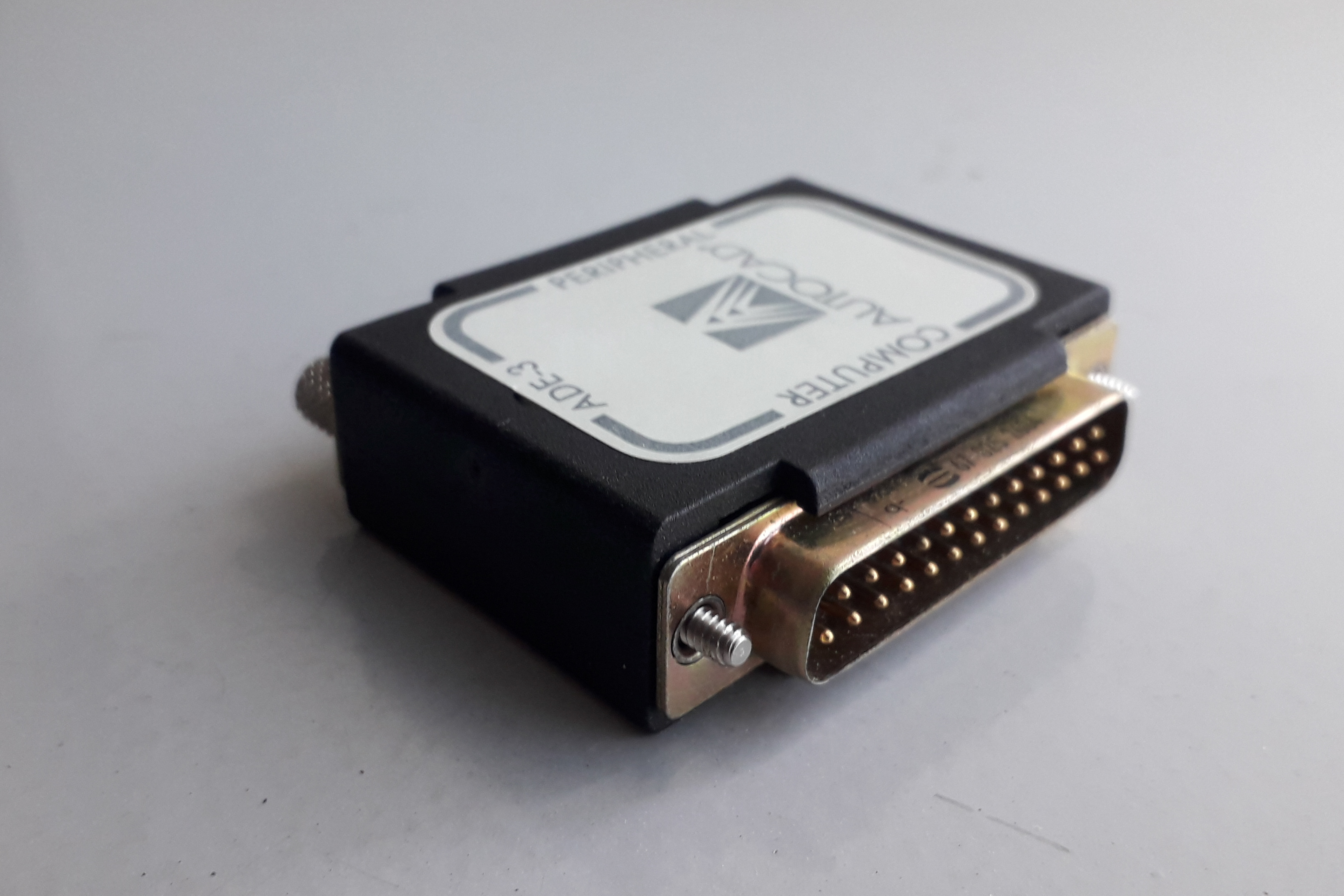 A 1990 25-pin parallel port hardware lock for Autodesk AutoCAD